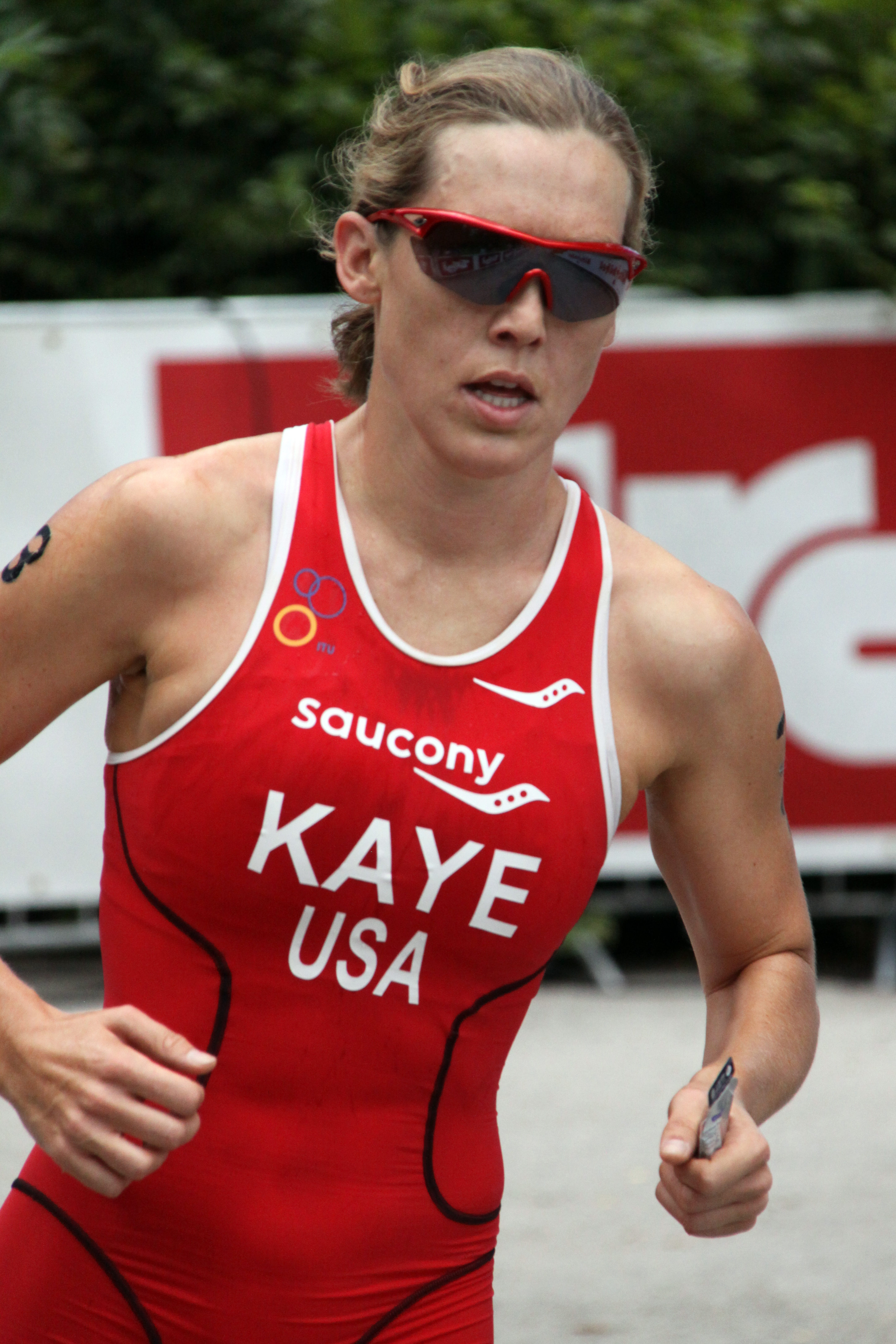 Alicia Kaye at the World Championship Series triathklon in Kitzbühel, Austria.